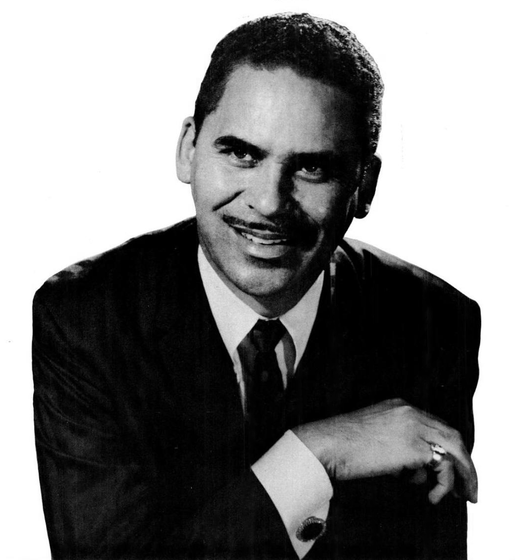 Trade ad for Willie Mitchell's album "It's What's Happenin".To better adapt it to his respective Wikipedia article, the ad was cropped and cleaned in a graphics editing program. The original can be viewed at the source below.